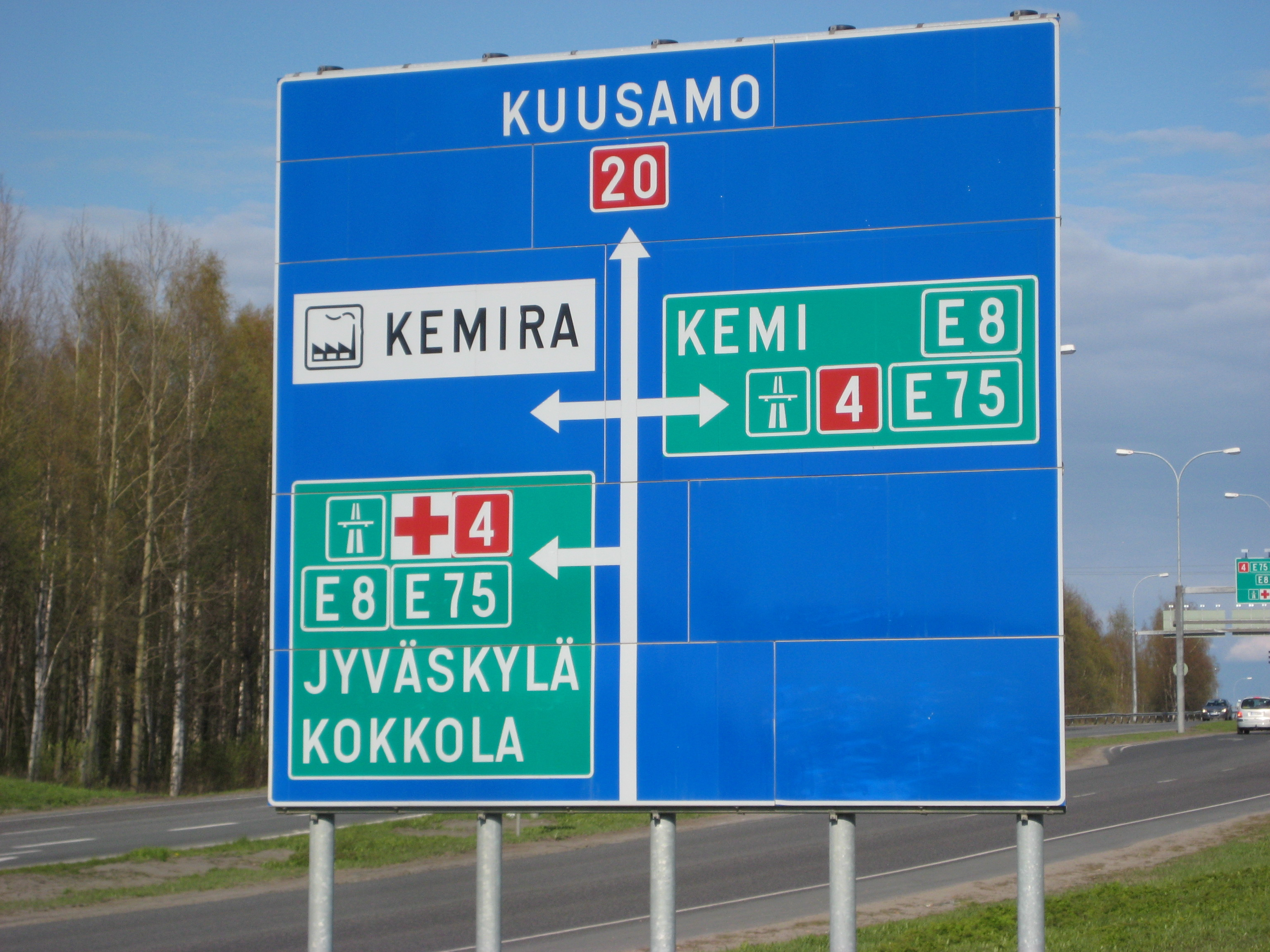 The advance sign for the junction with the national road 4 (E8/E75) on the national road 20 in Välivainio, Oulu, Finland, looking east